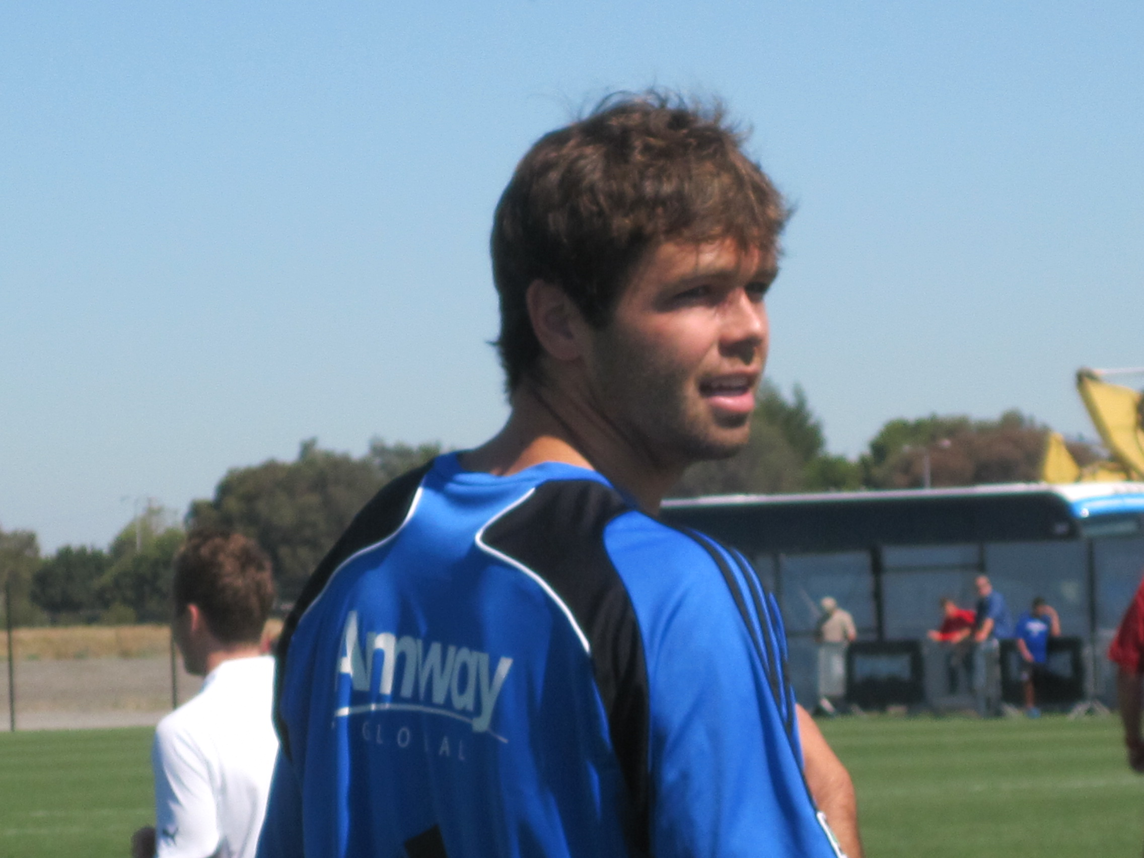 Bobby Burling of the SJ Earthquakes at an open training session for the touring Tottenham Hotspur, July 2010.